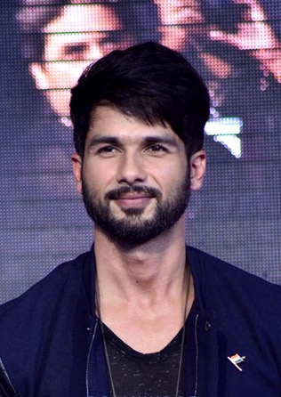 Shahid Kapoor at a promotional event for Haider at NM College